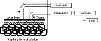 A low intensity beam of monochromatic light, emitted from a laser diode inside a BLF21-Series flowmeter travels via the probe’s fiber optic light guide through the probe head to illuminate the tissue under study. There, the laser beam is scattered by reflective components within the tissue. A portion of the light is reflected back, via the probe’s receiving fiber optic light guide, onto a photo detector inside the flowmeter. Generally, this received light has been reflected many times by stationary structures within the tissue as well as by one or more moving particles (mainly red blood cells) within the tissue. It is the moving Doppler effect Transonic Systems, Inc.